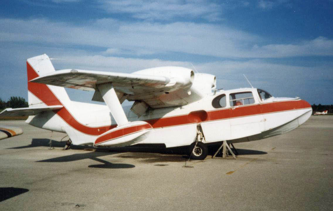 Piaggio P136L2 Trecker Gull at Tamiami Airport, Florida